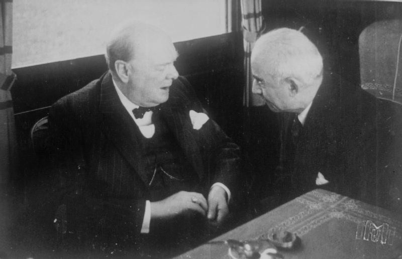 British Prime Minister Winston Churchill and Turkish President Ismet Inonu in conversation during a two day conference in a train at Adana, near the Turkish-Syrian borderTürkçe: Cumhurbaşkanı İsmet İnönü iki günlük bir konferans dolayısıyla Türkiye de bulunan İngiltere Başbakanı Winston Churchill ile bir trende görüşüyor, Adana,Türkiye.